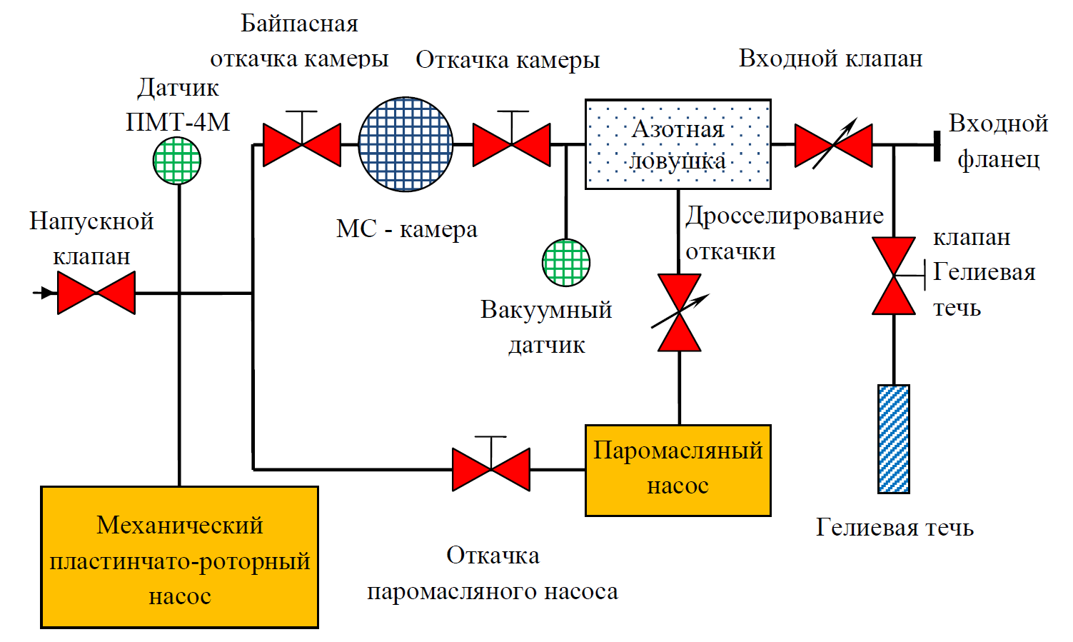 Vacuum system of helium leak detector PTI-10 (Made in USSR)